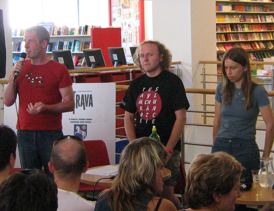 Actor Jaroslav Dušek at Colours of Ostrava, Dům knihy Librex, 2008